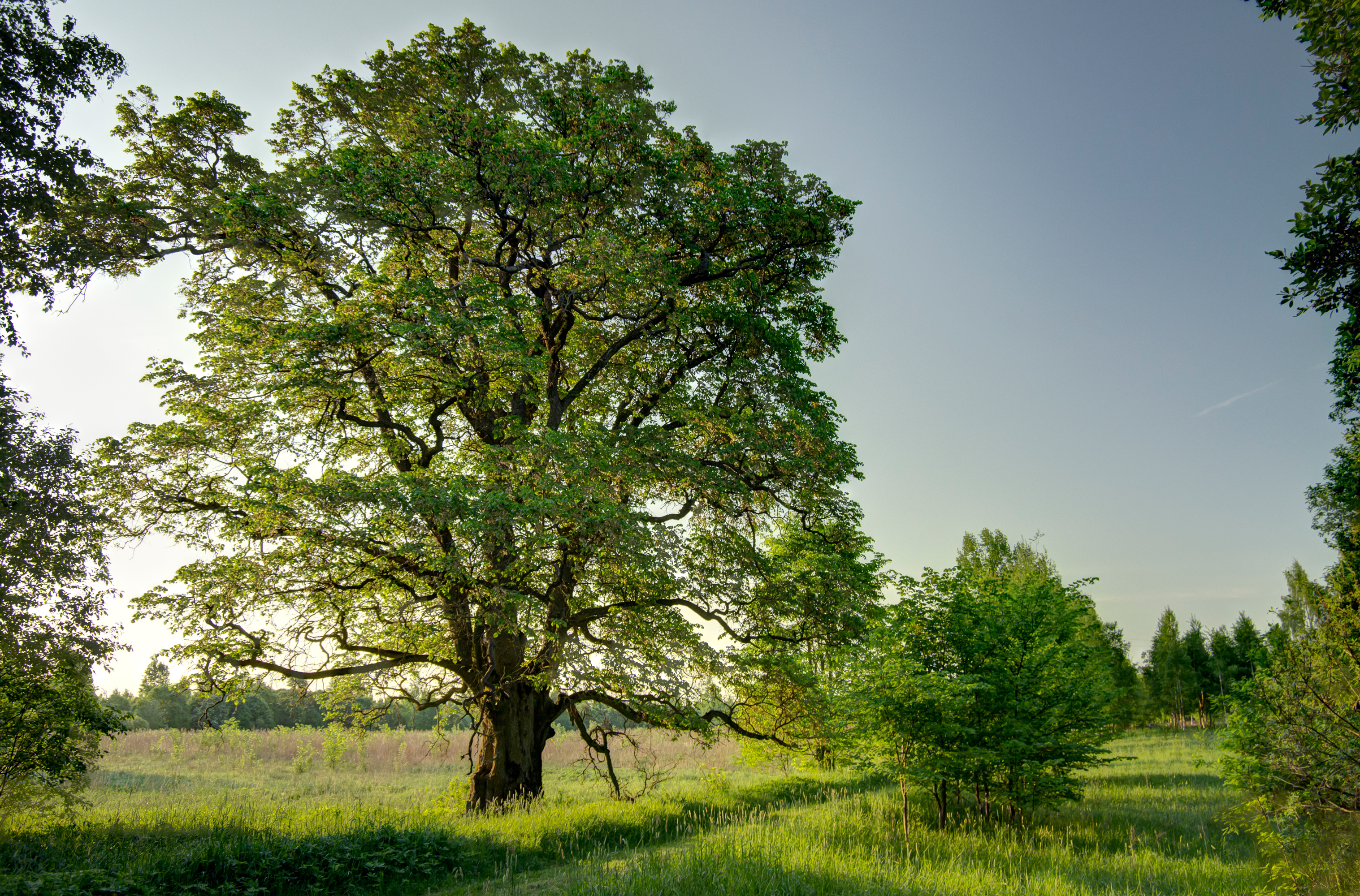 Rookse elm (Ulmus laevis), Võnnu Parish, Tartu County, Estonia